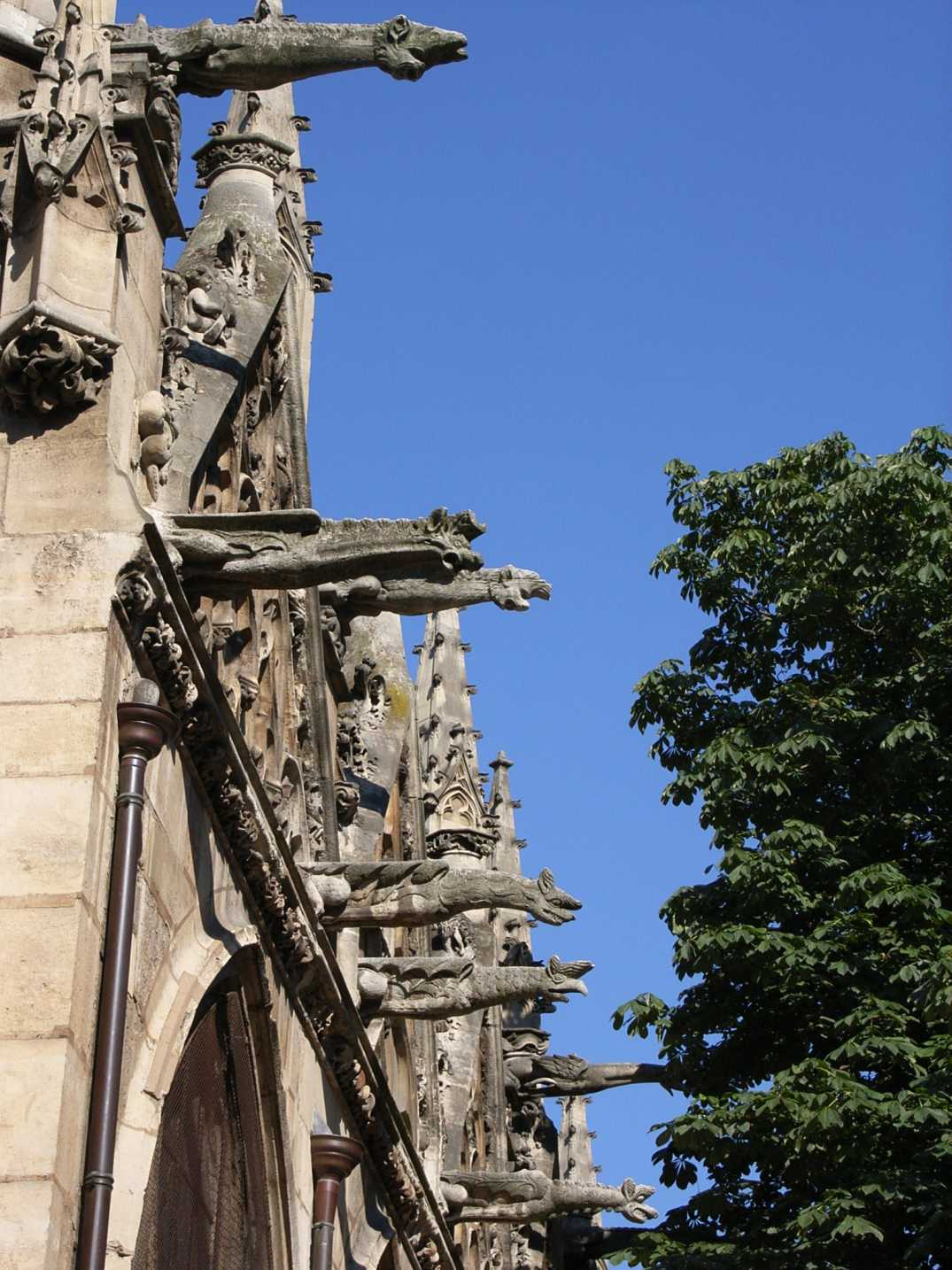 Wasserspeier von St. Severin, Paris; gargoyle of Saint Séverin, Paris